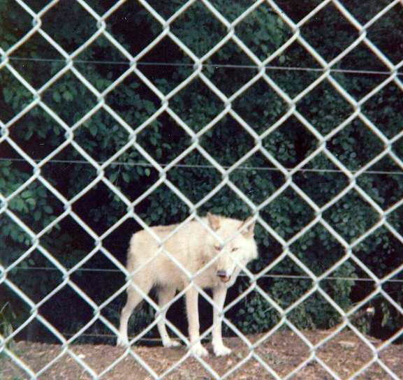 A wolf exhibit in Como Zoo/Park.